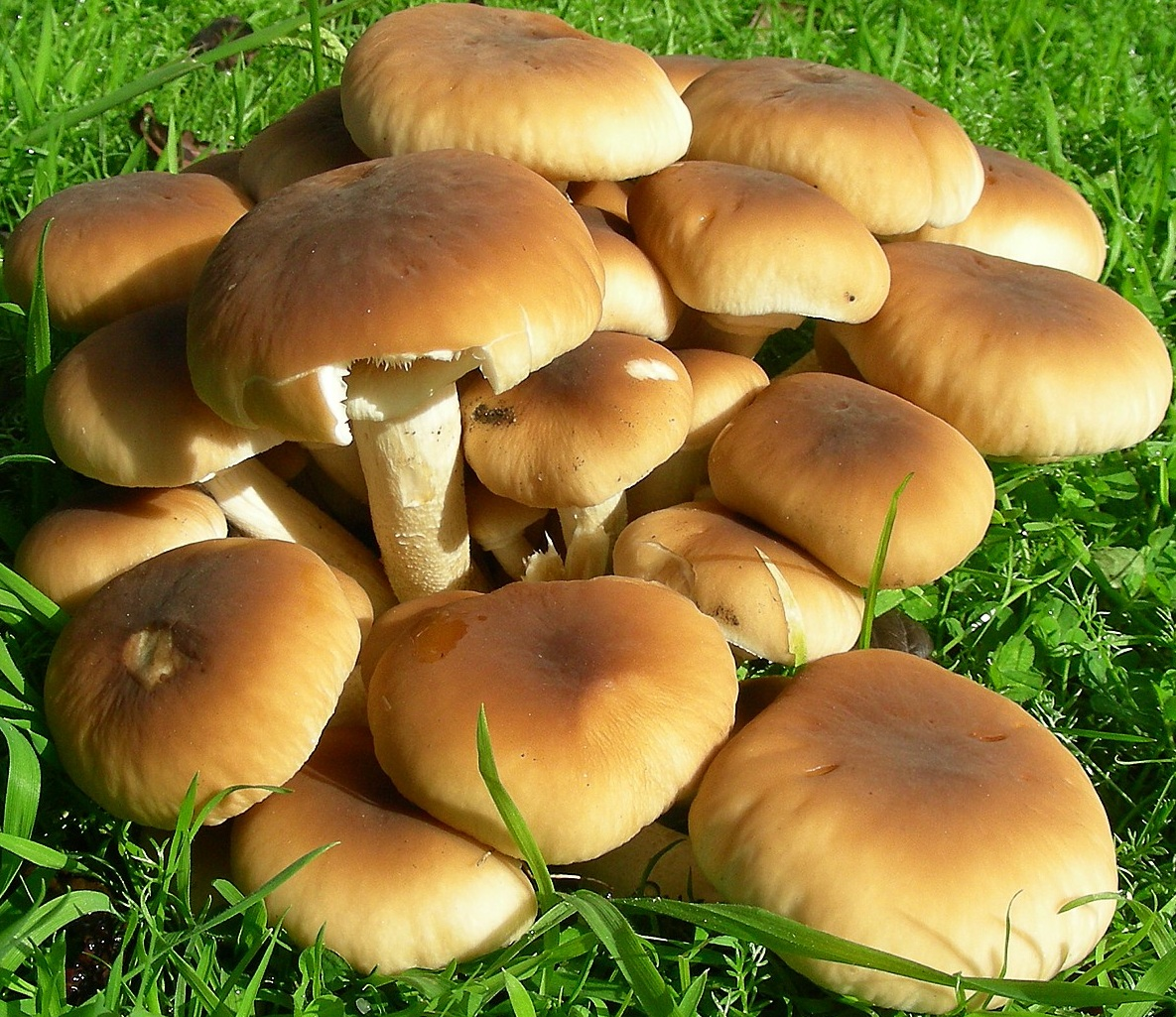 fungi